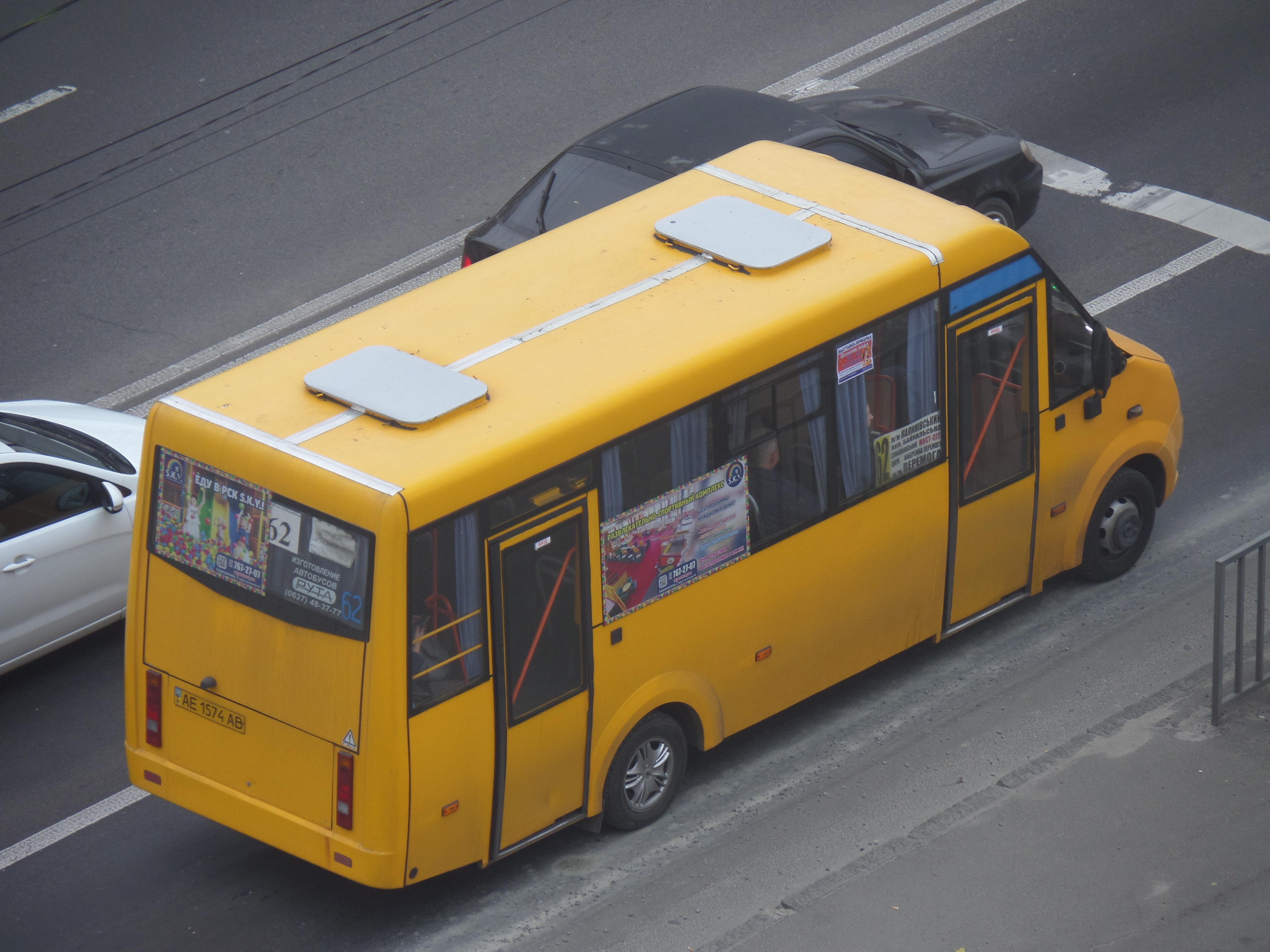 Ruta 25A no.АЕ 1574 АВ; Dnipro, Ukraine; 23.10.19